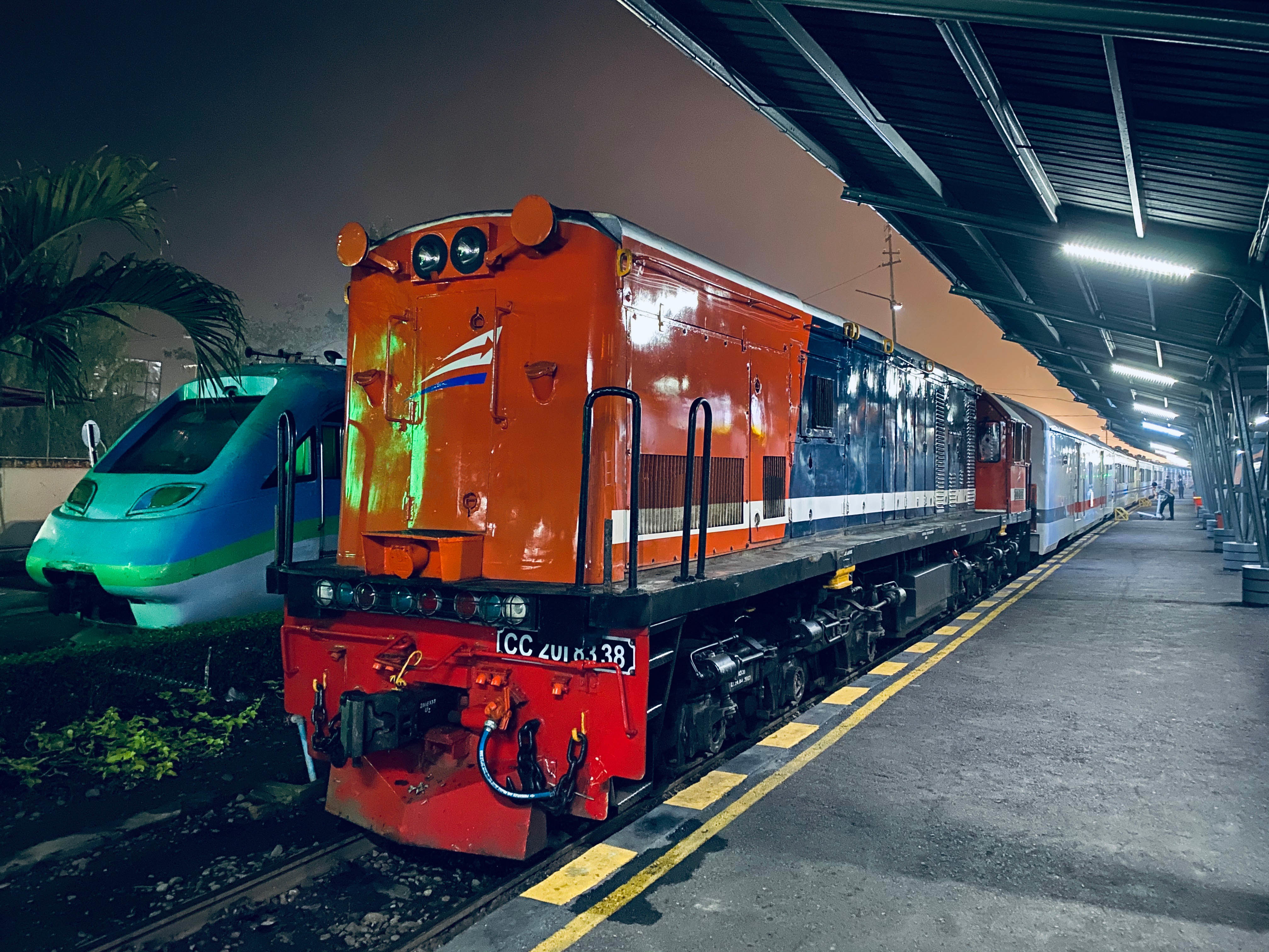 Sindang Marga S4 arrived at Kertapati Railway Station